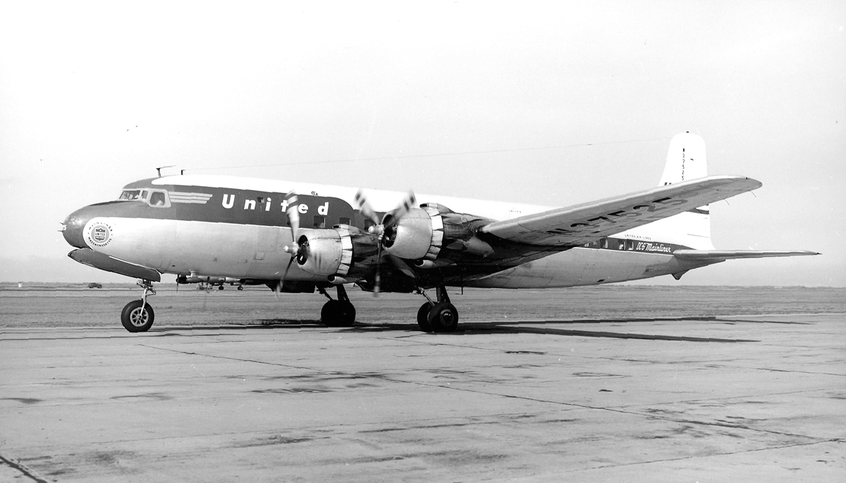 UnitedDC-6taxiOak52